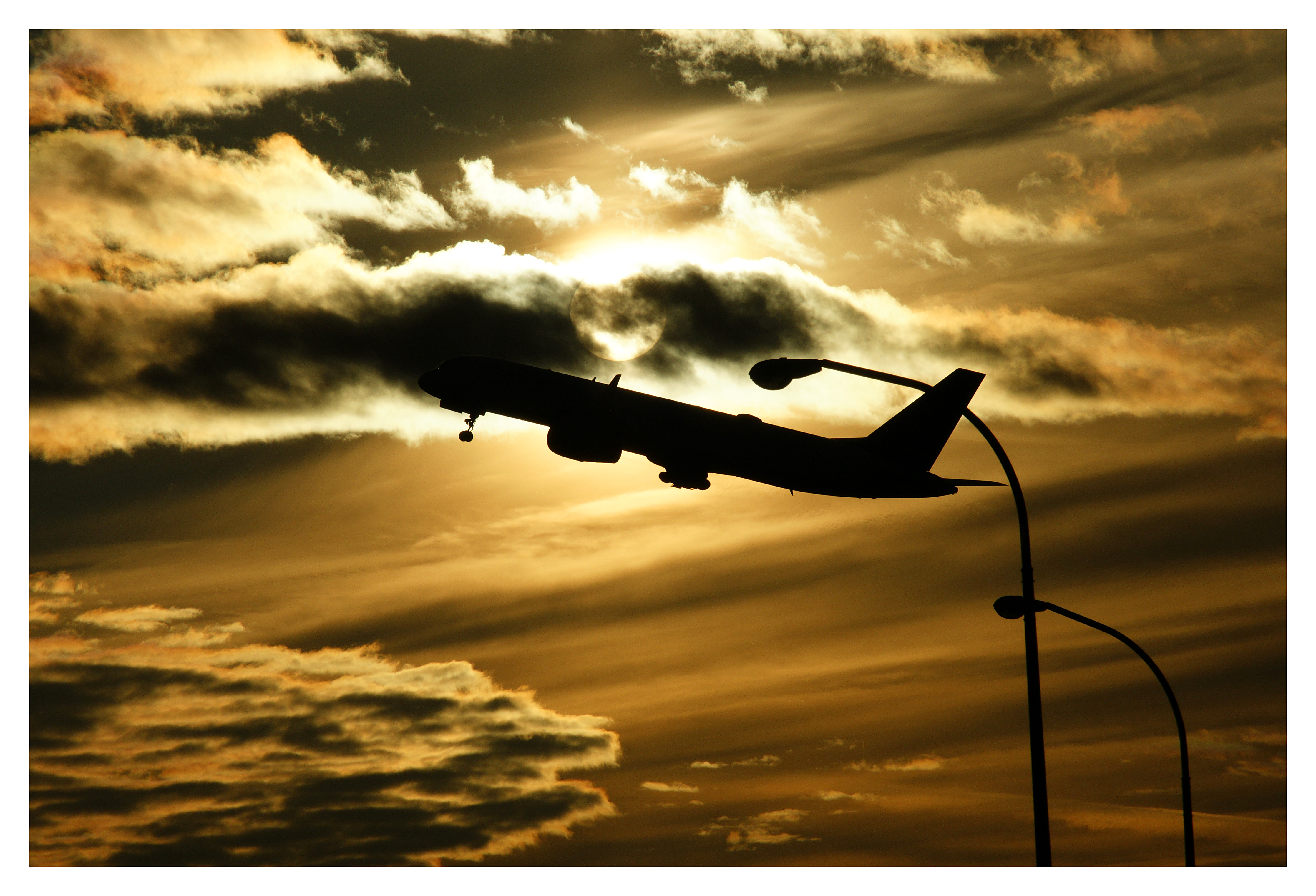 Icelandair Boeing 757-200 taking off at Keflavik International Airport